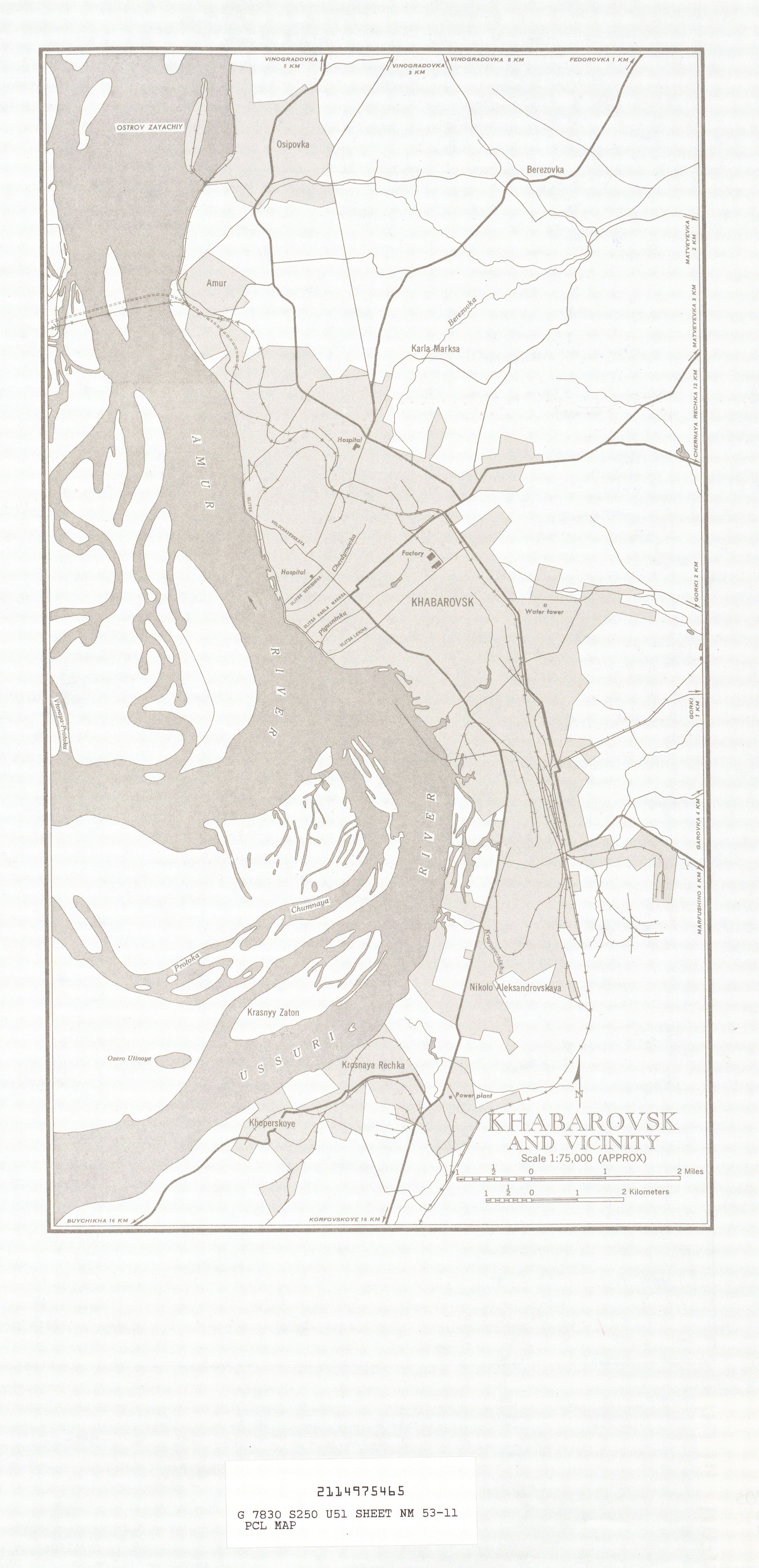 Manchuria AMS Topographic Maps